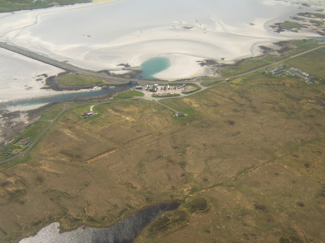 Northern End of the Causeway from Benbecula to South Uist